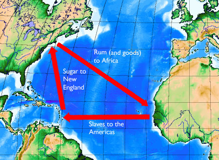 New England version of the Triangular Trade